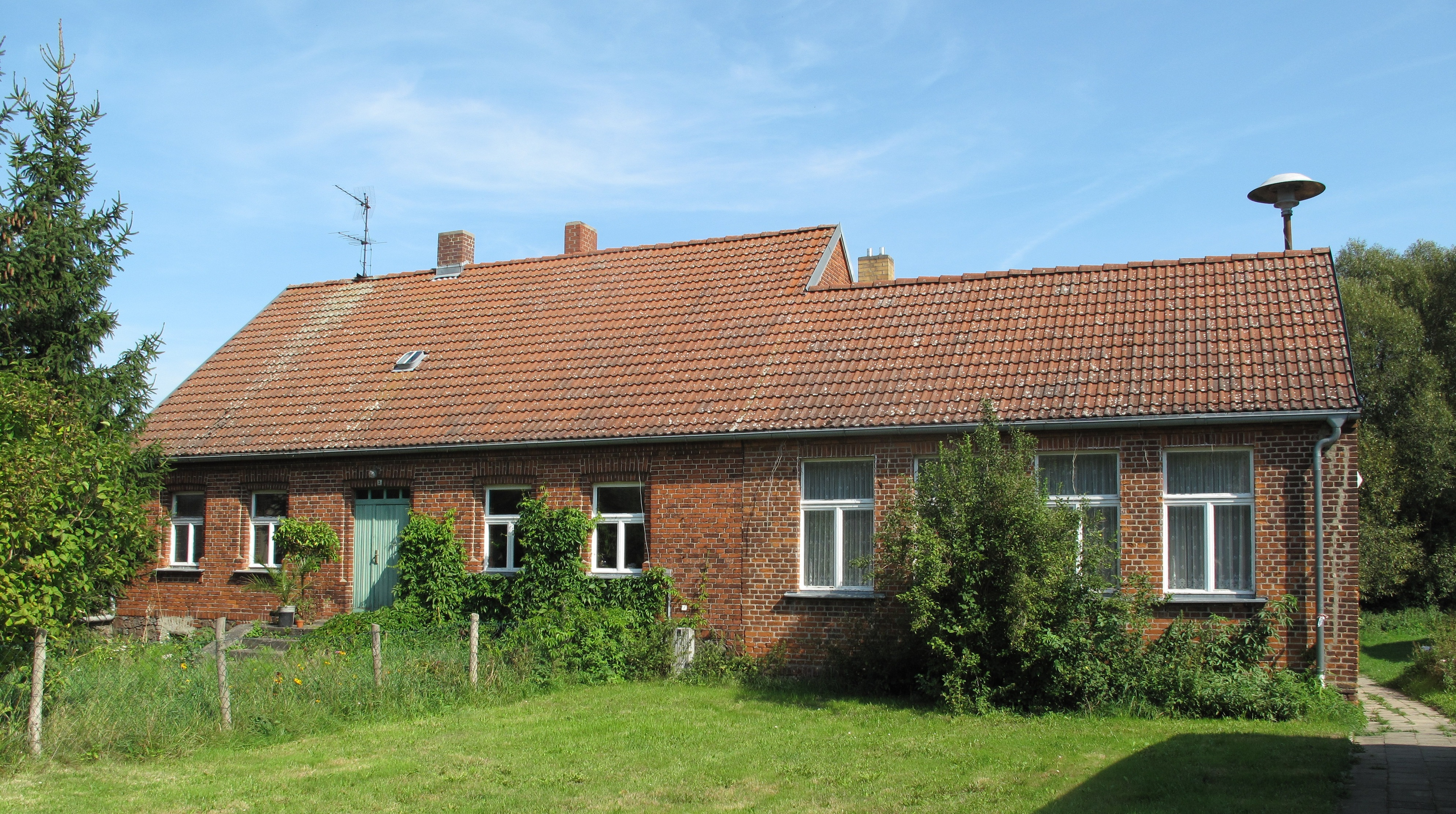 Former school in Grunow. The village Grunow is a civil parish (Ortsteil) of the municipality Oberbarnim in the District Märkisch-Oderland, Brandenburg, Germany. Grunow was first mentioned in written documents in 1315 and is situated on the Barnim Plateau in the Märkische Schweiz Nature Park. In 2010 the village had about 350 inhabitants (incl. it’s part Ernsthof). Due to its fieldstone-Builsdings and –streets Grunow is a part of the Oberbarnimer Feldsteinroute, a 41,5 kilometers long walking and bike trail in the traces of the building material fieldstone.